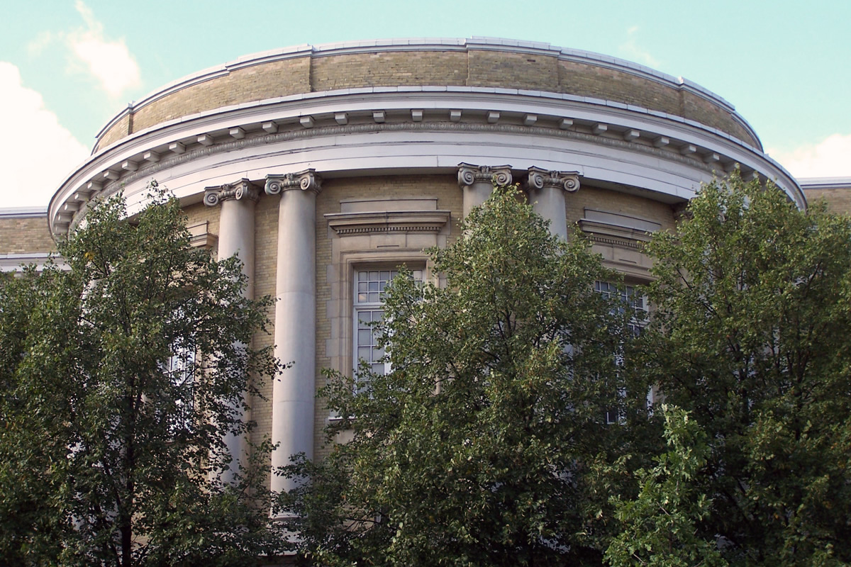 Sandford Fleming Building, University of Toronto